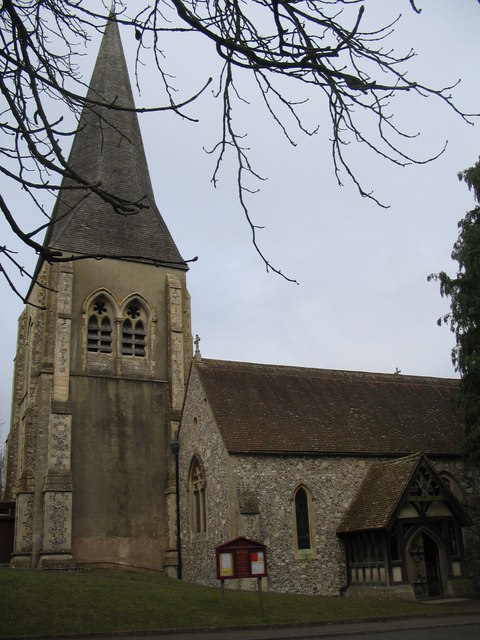 West end of All Hallows parish church, Whitchurch, Hampshire, seen from the southwest